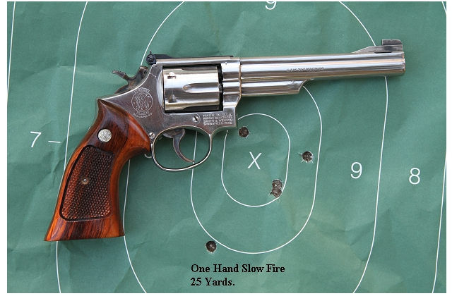 This is the version of the Combat Magnum K-frame revolver made from the 1950s until the early 2000s.